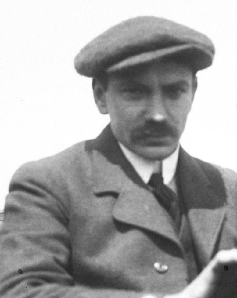 Lucien Molon in his Vinot-Deguingand at the 1912 French Grand Prix at Dieppe.